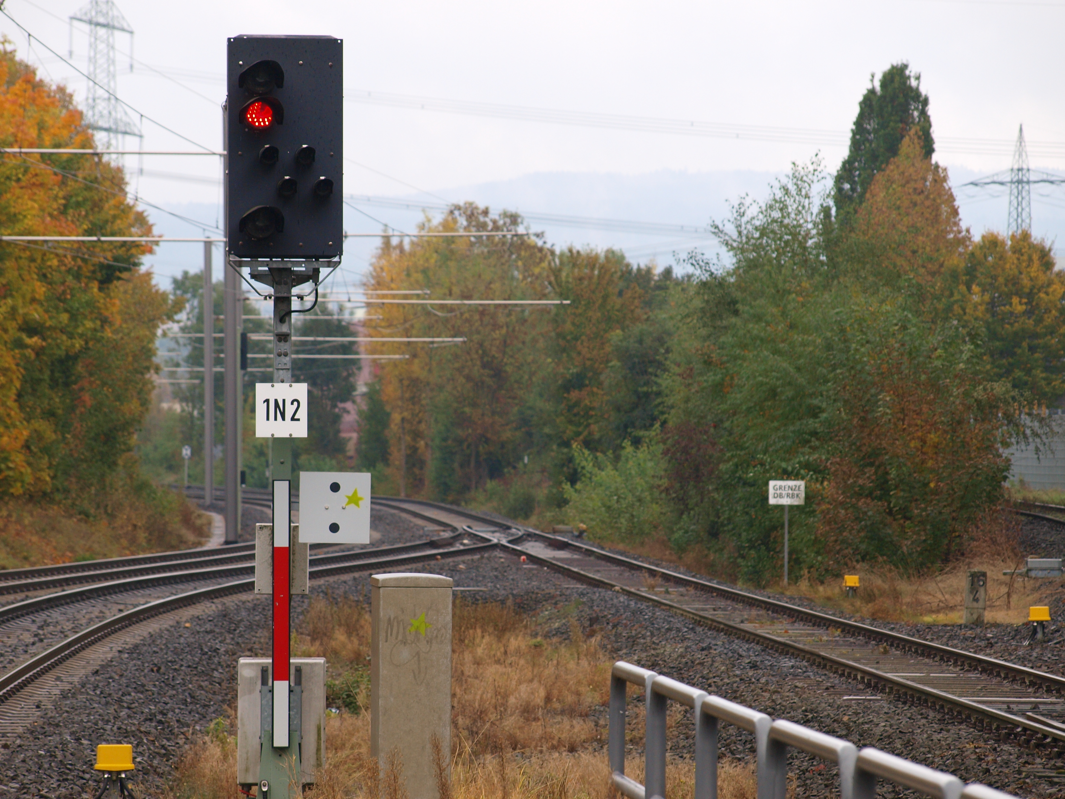 Signal “1N2” at the station Kaufungen Industriestraße (Kassel-Waldkappel railway/Kassel Tram) showing Hp 0 (Stop) and So 1 (changeover from driving on sight to driving on signals)